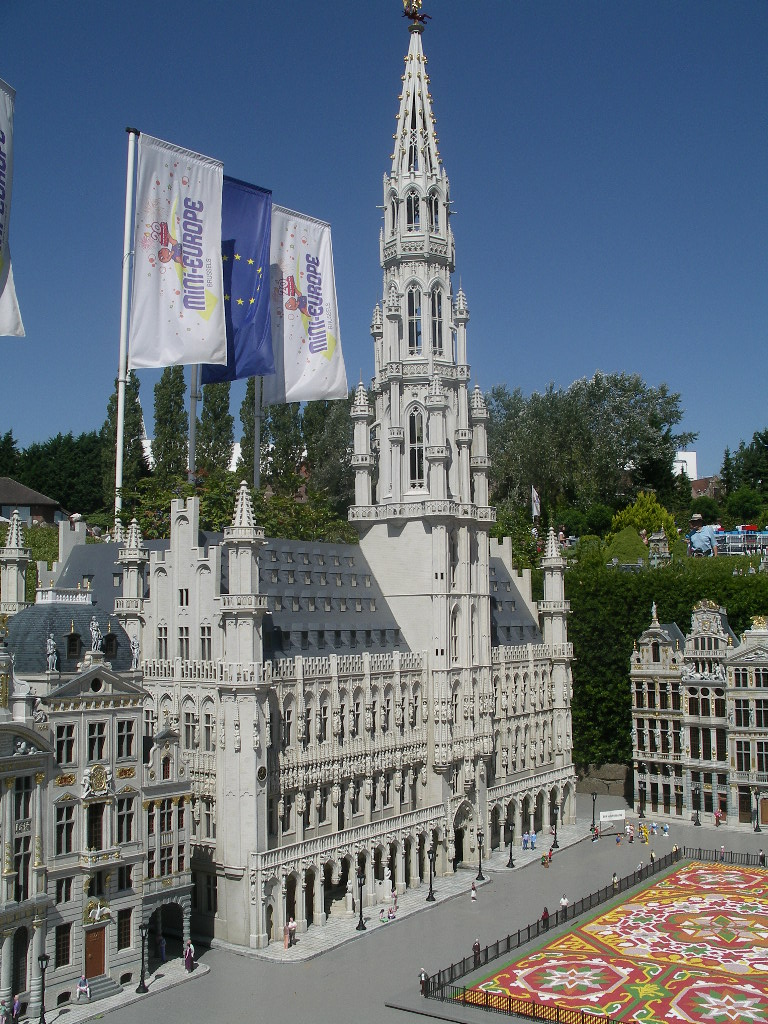 Model of Brussels Square in Mini Europe